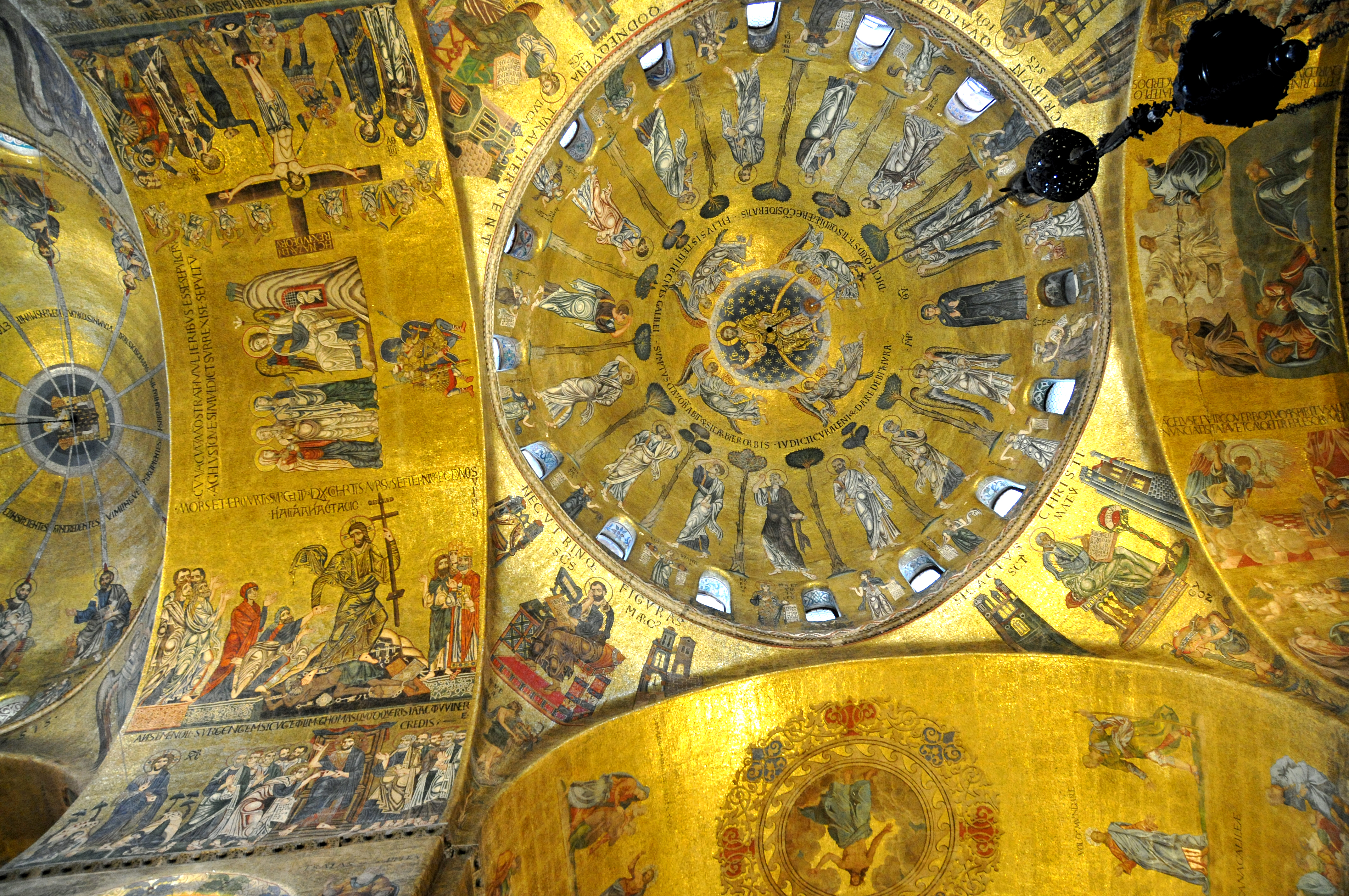 The interior is fantastic and is completely covered with bright mosaics containing gold, bronze, and the greatest variety of stones. The decorated surface is about 8,000 square meters.